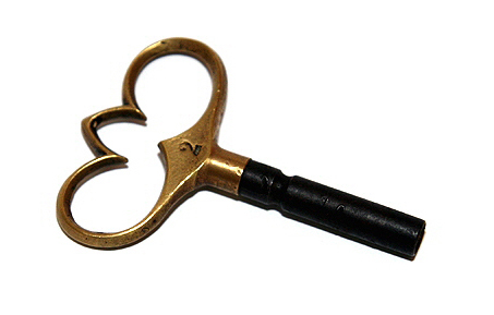 Windig Key of a Lenzkirch Wallclock